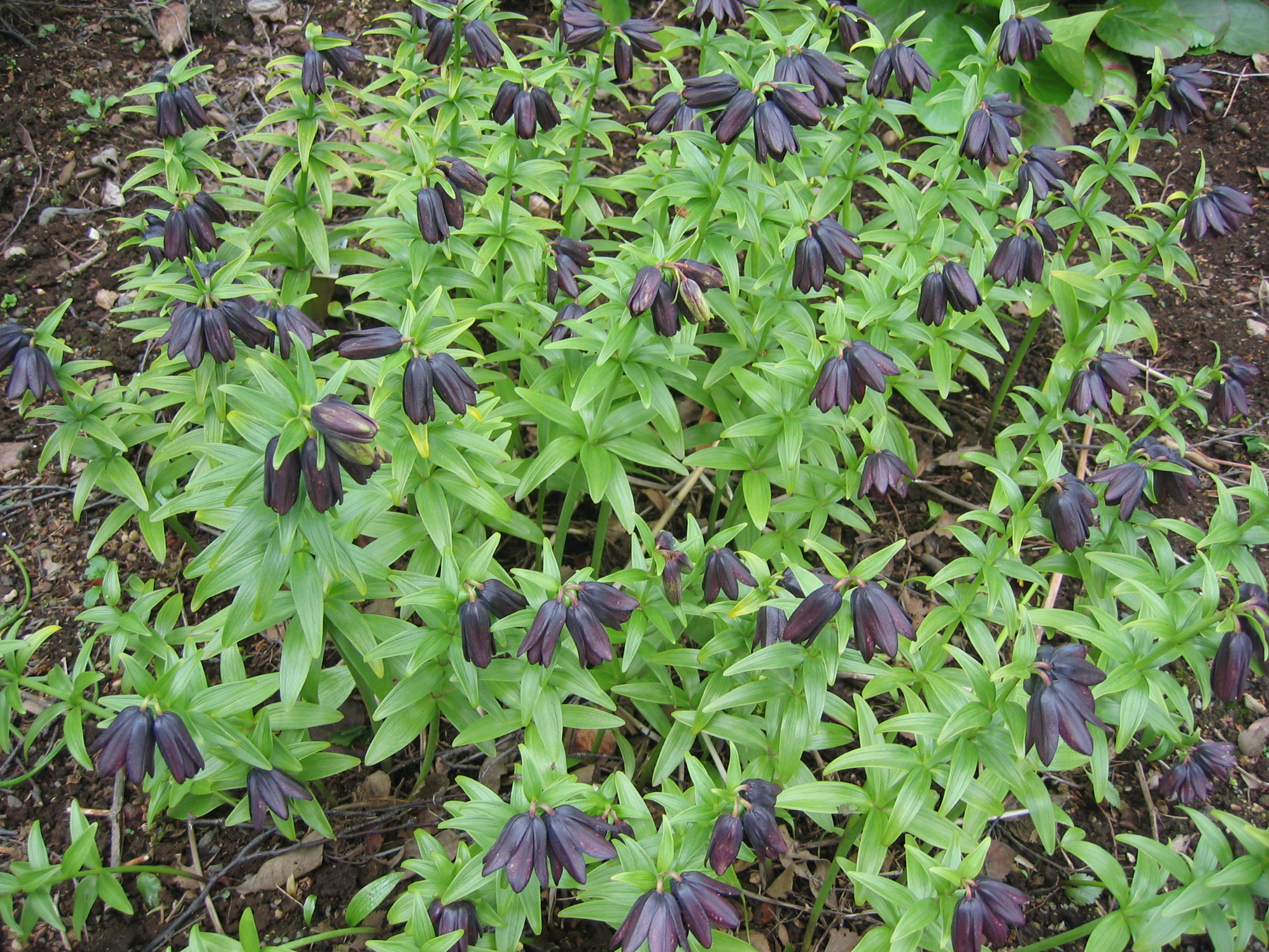 Fritillaria camschatcensis Photo by Salvor taken in the botanical garden in Reykjavik.